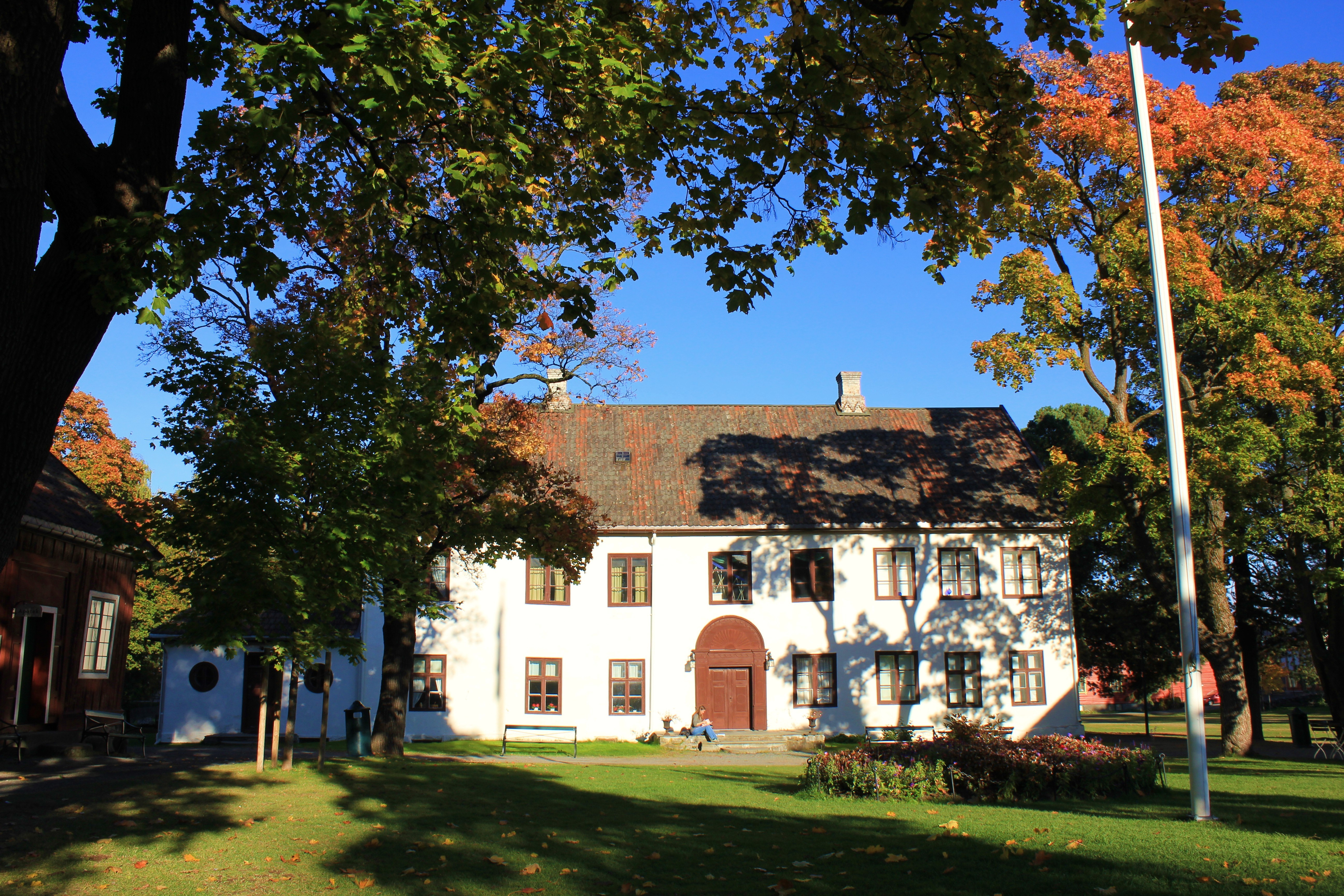 Gjøvik Gård is the central park of Gjøvik, Oppland, Norway.